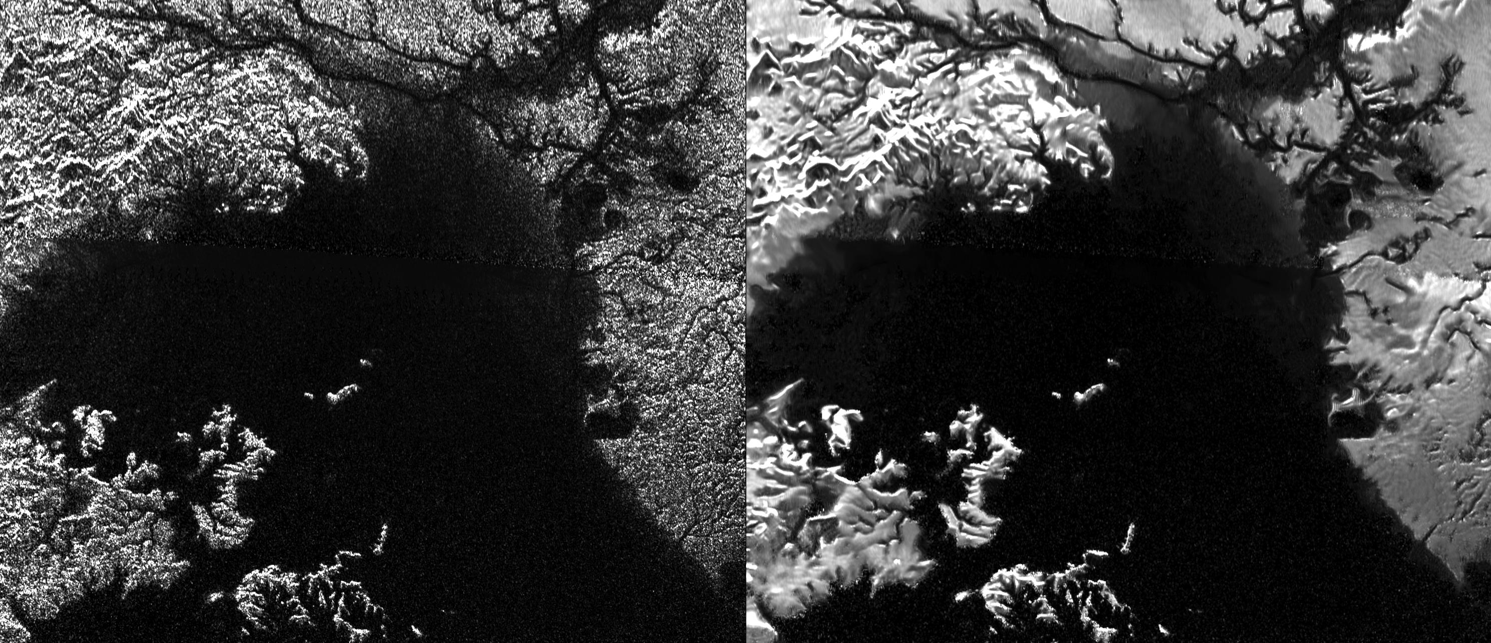 Images February 12, 2015 Despeckling Ligea Mare Presented here are side-by-side comparisons of a traditional Cassini Synthetic Aperture Radar (SAR) view and one made using a new technique for handling electronic noise that results in clearer views of Titan's surface. The technique, called despeckling, produces images that can be easier for researchers to interpret. The view is a mosaic of SAR swaths over Ligeia Mare, one of the large hydrocarbons seas on Titan. In particular, despeckling improves the visibility of channels flowing down to the sea. The Cassini-Huygens mission is a cooperative project of NASA, the European Space Agency and the Italian Space Agency. NASA's Jet Propulsion Laboratory, a division of the California Institute of Technology in Pasadena, manages the mission for NASA's Science Mission Directorate, Washington. The Cassini orbiter was designed, developed and assembled at JPL. The radar instrument was built by JPL and the Italian Space Agency, working with team members from the United States and several European countries. For more information about the Cassini-Huygens mission visit and